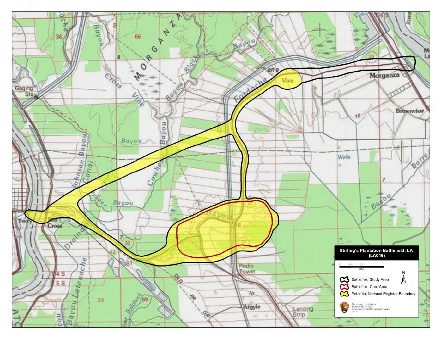 Map of battlefield core and study areas. The revised Study Area includes the route taken by the 37th Illinois from Morganza in an attempt to relieve its surrounded comrades. As it arrived on the field, the 37th deployed to cover the withdrawal of the last of the Union cavalry.